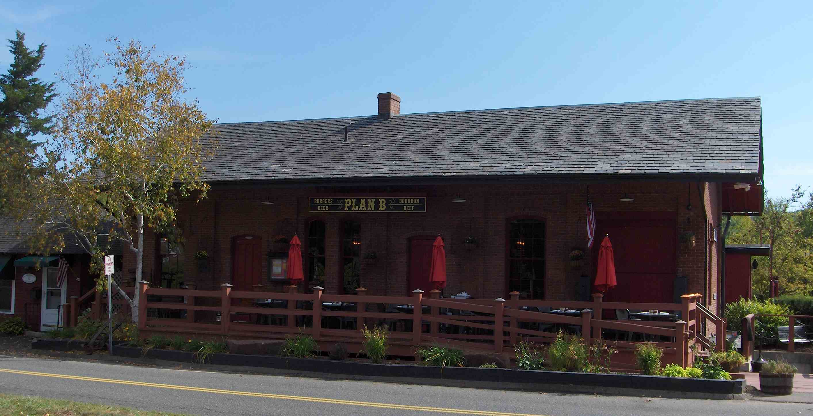 Simsbury Railroad Depot, built in 1875, a National Register of Historic Places building. Operated as a restaurant in 2010.